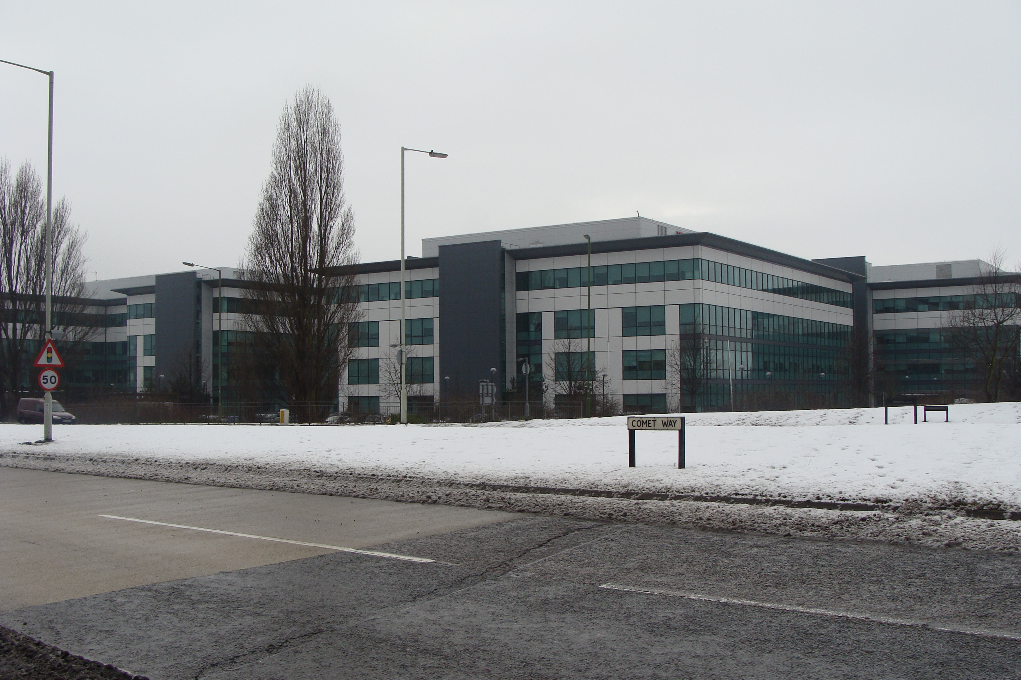 T-Mobile at Hatfield Business Park from Comet Way